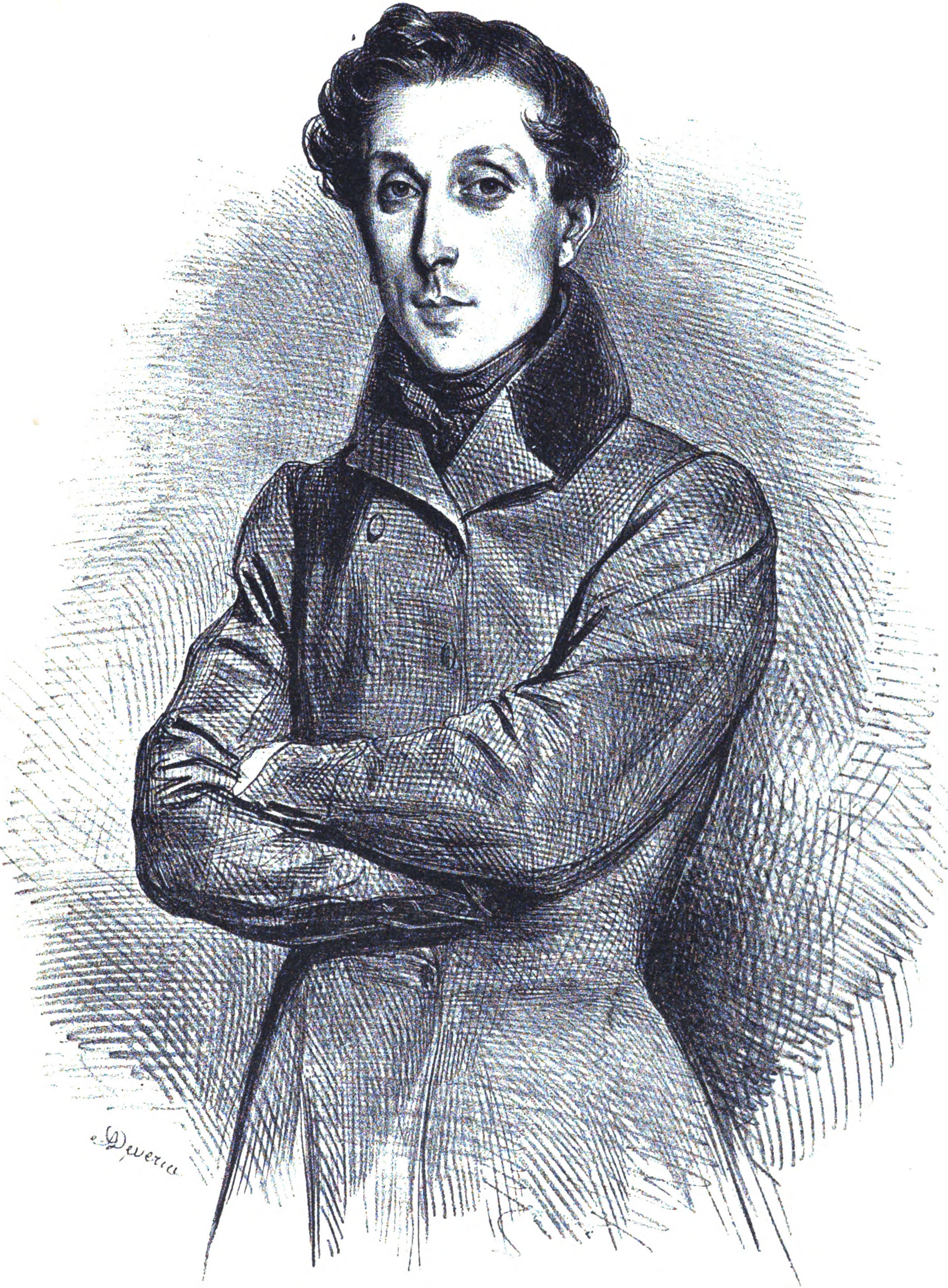 Portrait of the French architect Alphonse de Gisors, portrait lithographique